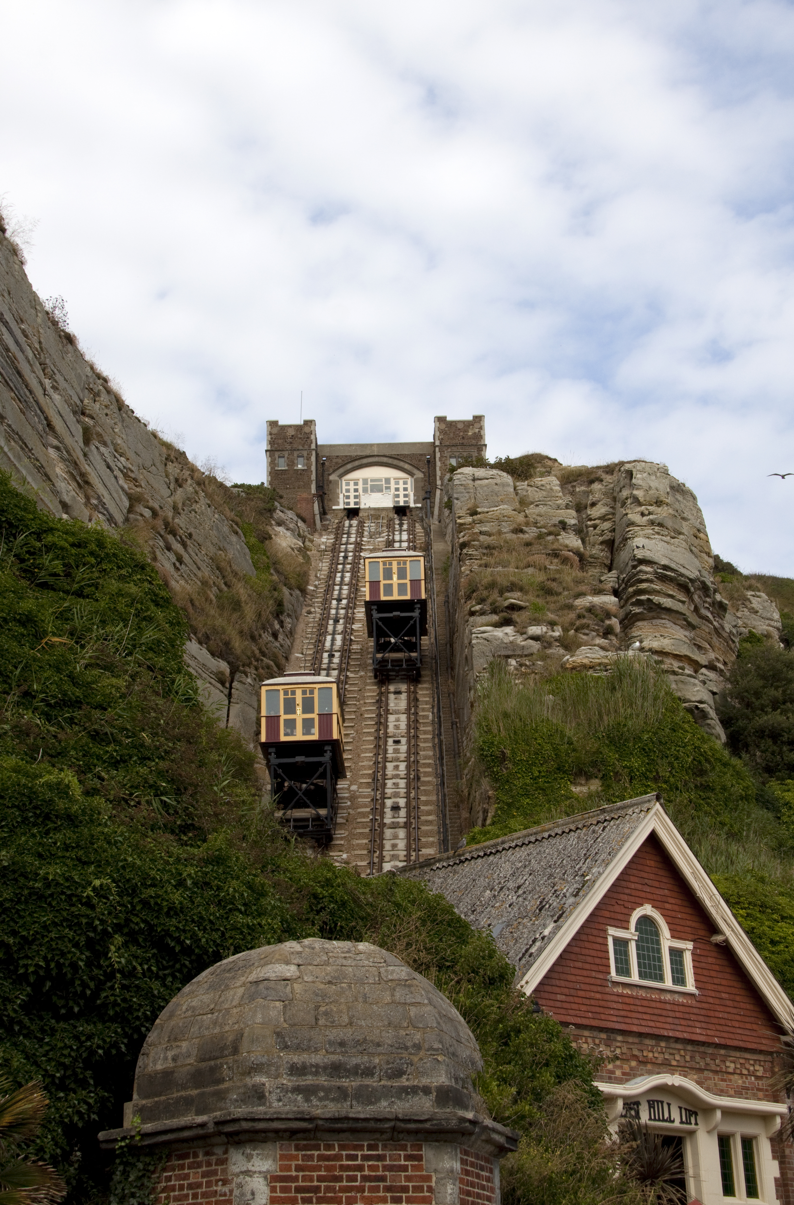 Cliff Railway Hastings